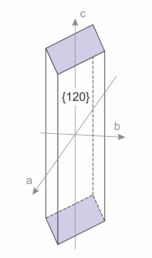 Drawing of a staněkite-crystal. Reference: Paul Keller et al. (1997): Staněkite, Fe3+(Mn,Fe2+,Mg)(PO4)O, a new phosphate mineral in pegmatites at Karibib (Namibia) and French Pyrénées (France), European Journal of Mineralogy Vol. 9 (3), p. 477. The violet colored faces are not termination faces but resulted from parting of the staněkite-crystal perpendicular to the c-axis.